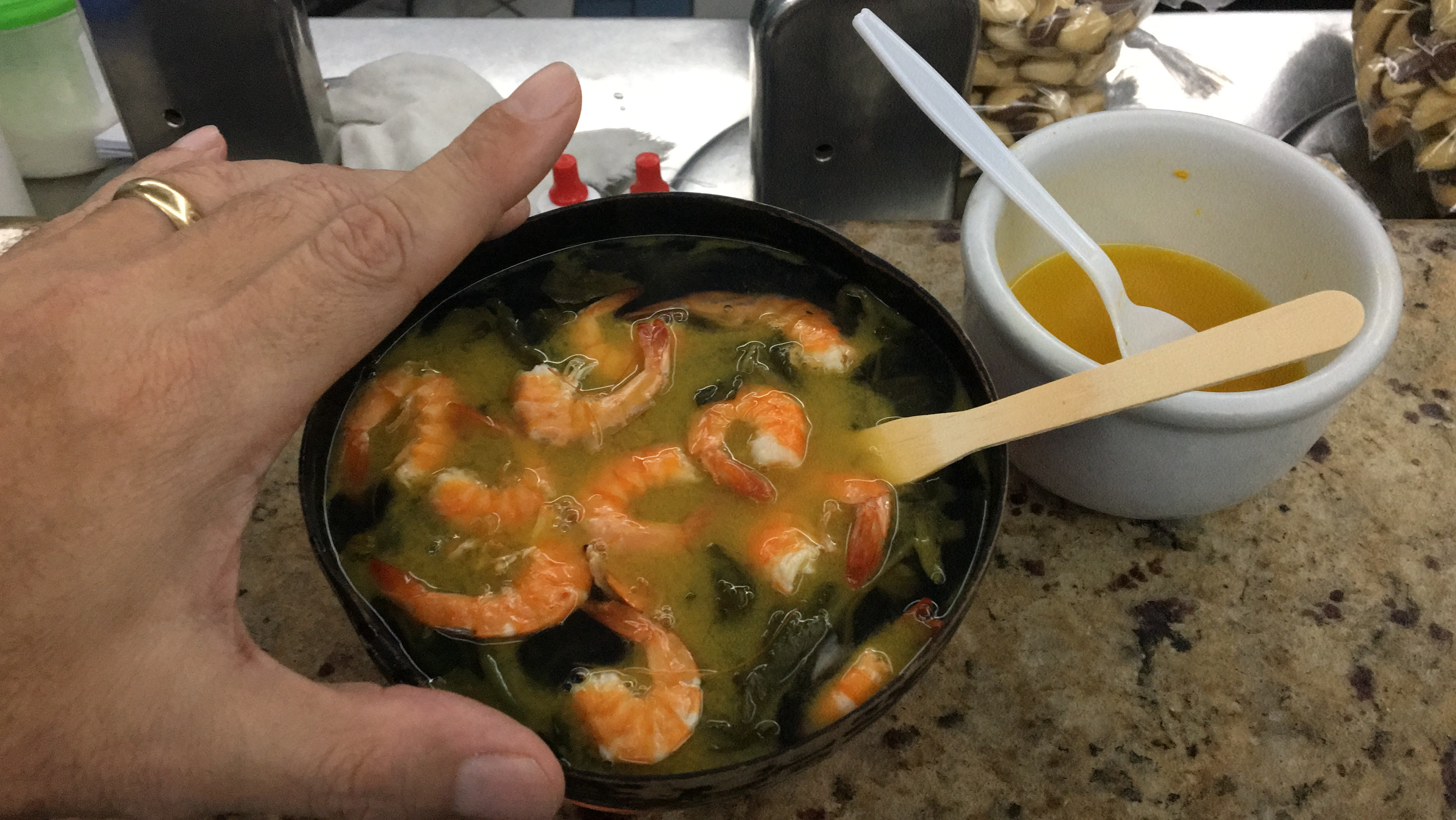 Tacacá is a soup common to North Brazil, particularly in the states of Acre, Amazonas, Rondônia and Pará, and is well loved and widely consumed. It is made with jambu (a native variety of paracress), and tucupi (a broth made with wild manioc), as well as dried shrimps and small yellow peppers. It must be served extremely hot in a cuia.